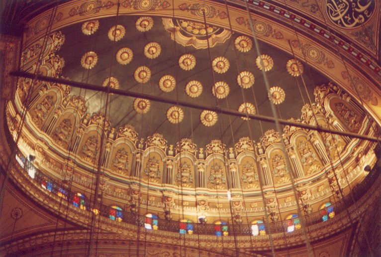 self made